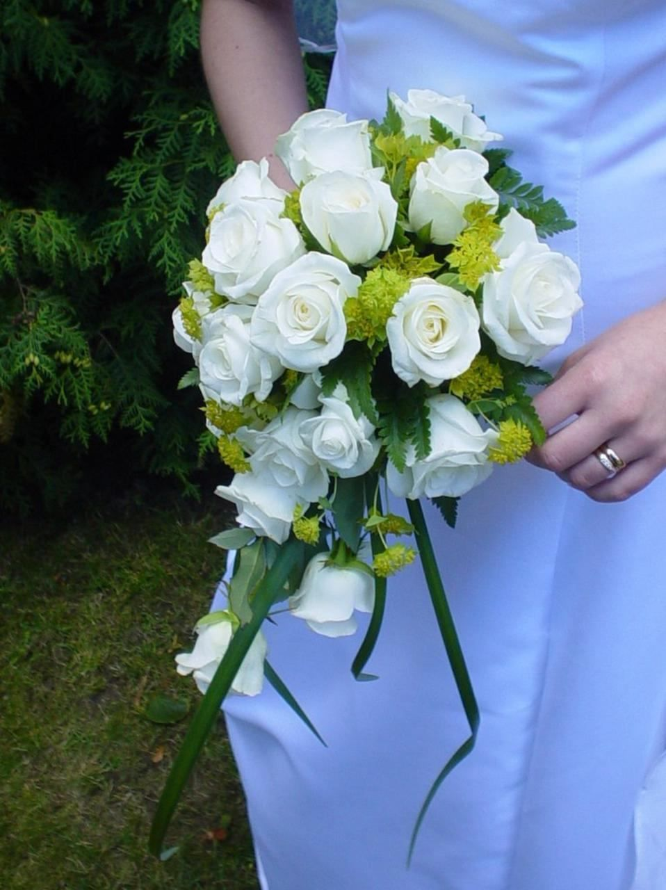 Image title: Wedding bouquet white roses Image from Public domain images website